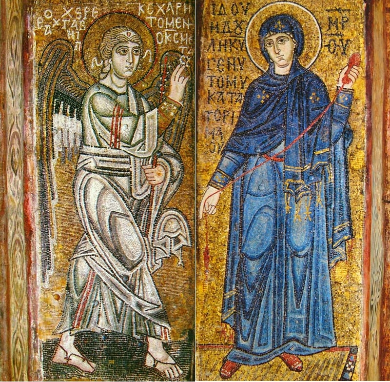 2 mosaics with Annunciation on the pillars of Saint Sophia Cathedral in Kiev.